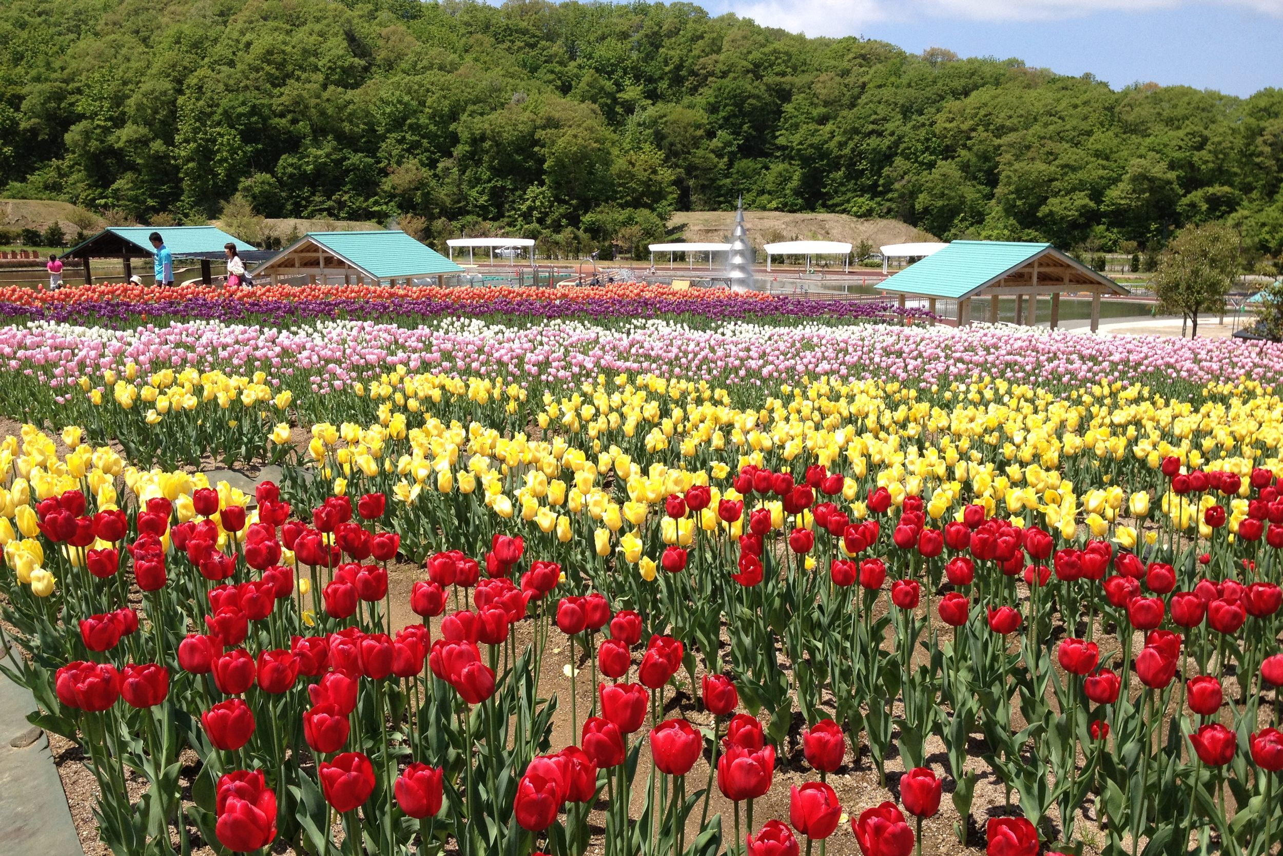 Tulip festival in Echigo Hillside National Government Park, Nagaoka, Niigata Prefecture, Japan